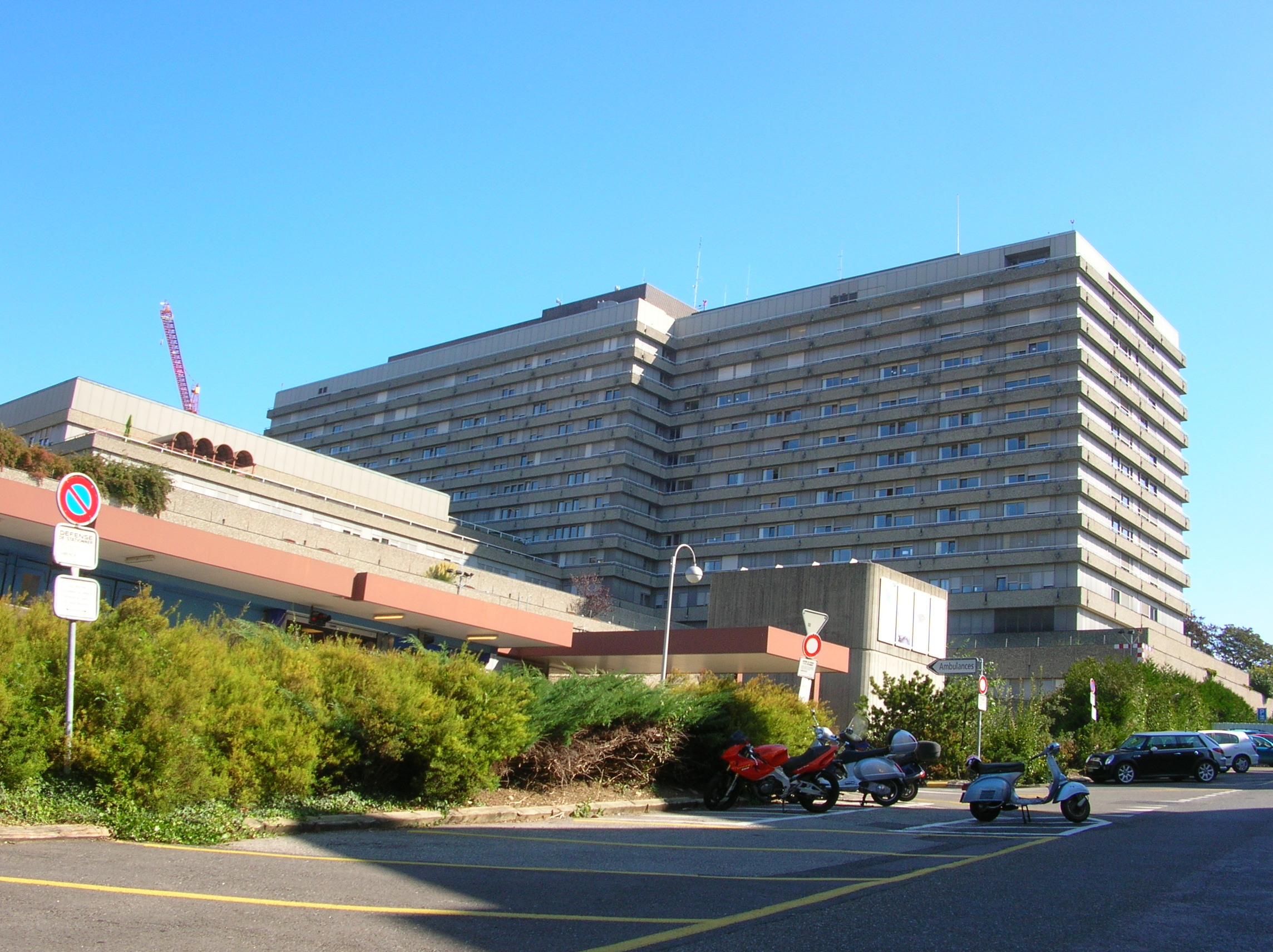 The Vaudois University Hospital Center (CHUV) in Lausanne (Switzerland).